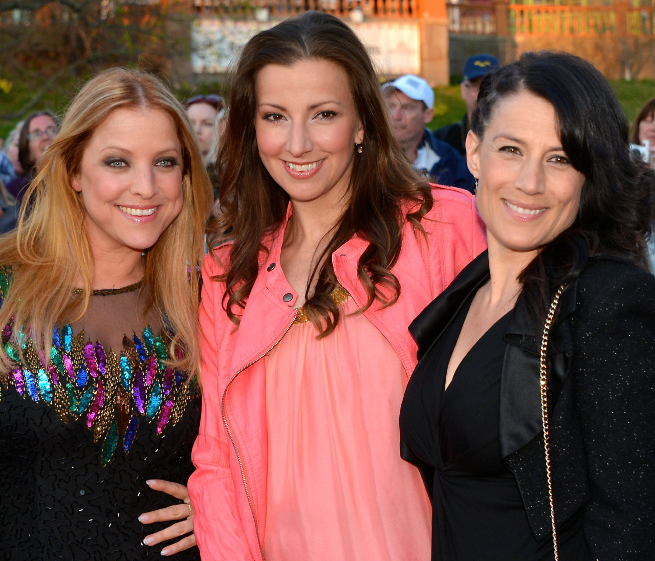 Shirley Clamp, Sonja Aldén and Jill Johnson during the opening of ABBA: The Museum May 6, 2013.